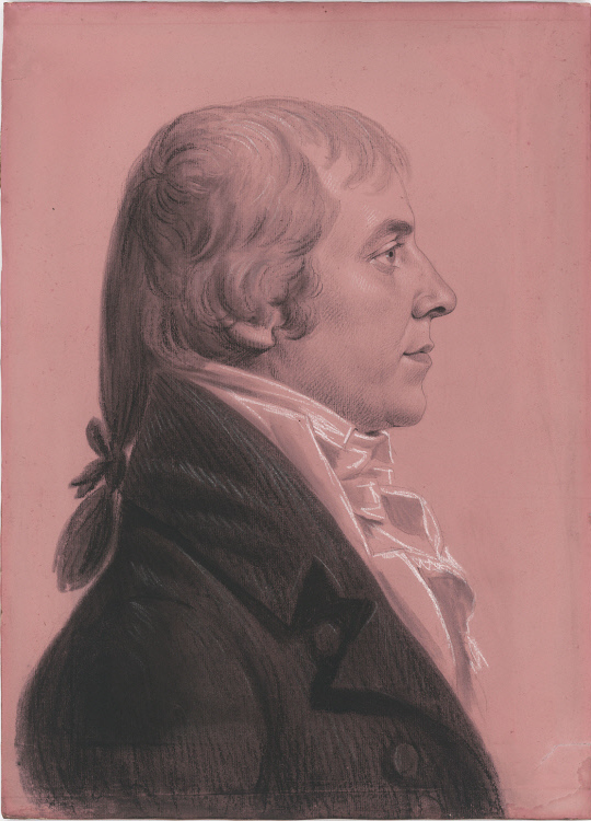 John Wickham Artist Charles Balthazar Julien Févret de Saint-Mémin, 12 Mar 1770 - 23 Jun 1852 Sitter John Wickham, 1763 - 1839 Date 1808 Type Drawing Medium Chalk on paper Dimensions Sheet: 56 x 40.4cm (22 1/16 x 15 7/8") Mat (Verified): 71.1 x 55.9cm (28 x 22") Frame: 72.5 × 56.7 × 6.4cm (28 9/16 × 22 5/16 × 2 1/2") Credit Line National Portrait Gallery, Smithsonian Institution; partial gift of Virginia Wickham Hayes Object number NPG.2001.8